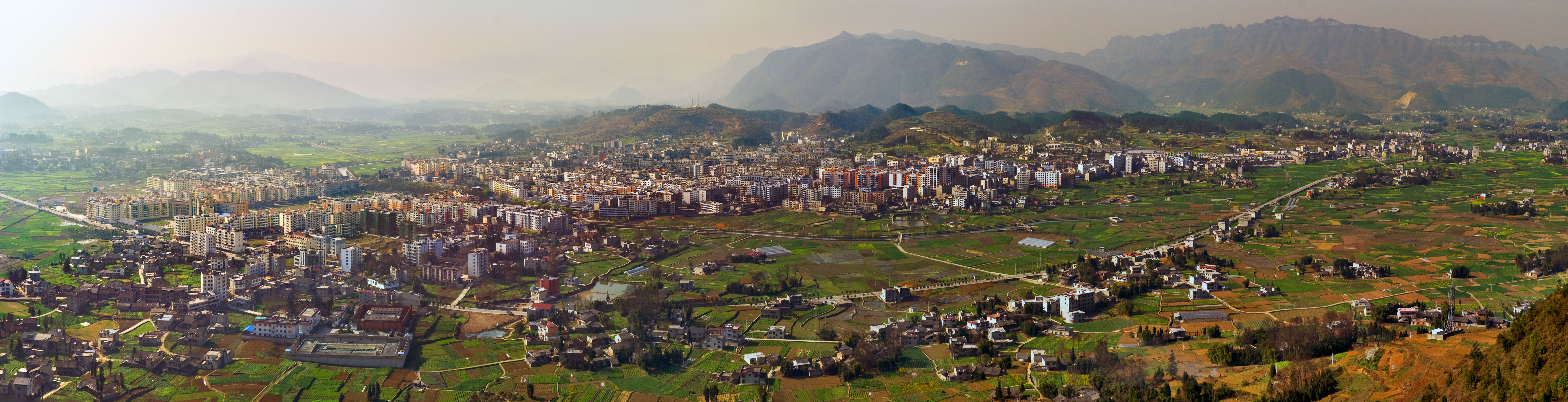 panorama of Suiyang district from YangQinYa